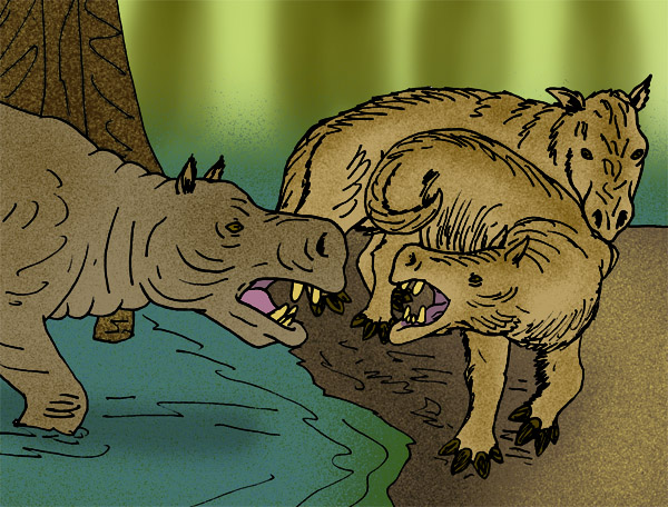 A pair of the Oligocene anthracothere, Elomeryx armatus, being threatened by an irate Anthracotherium magnus. (C) Stanton F. Fink